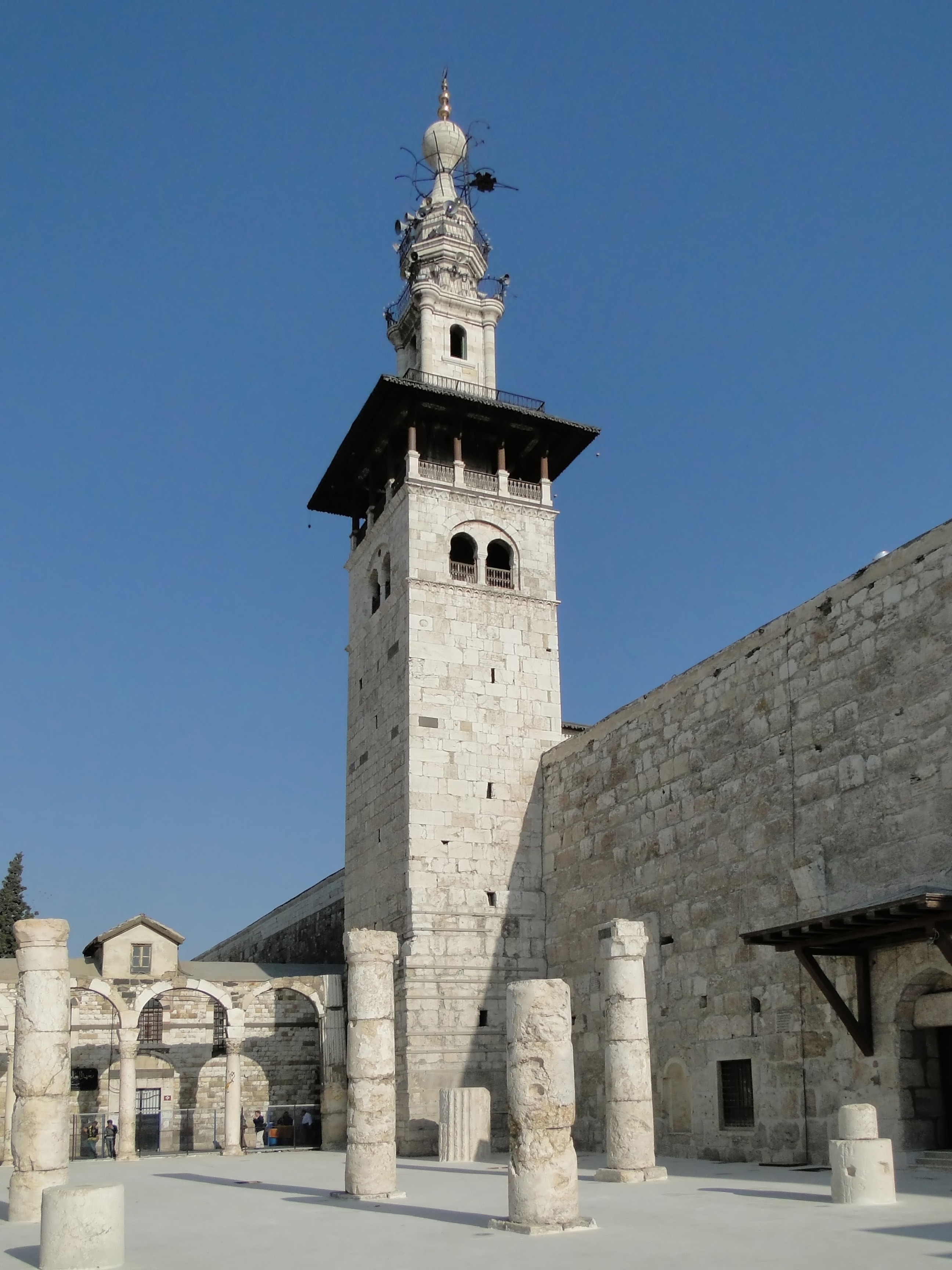 Minaret of the Bride, Umayyad Mosque, Damascus, Syria